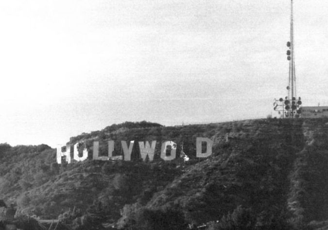 The Hollywood Sign in disrepair during the 1970s